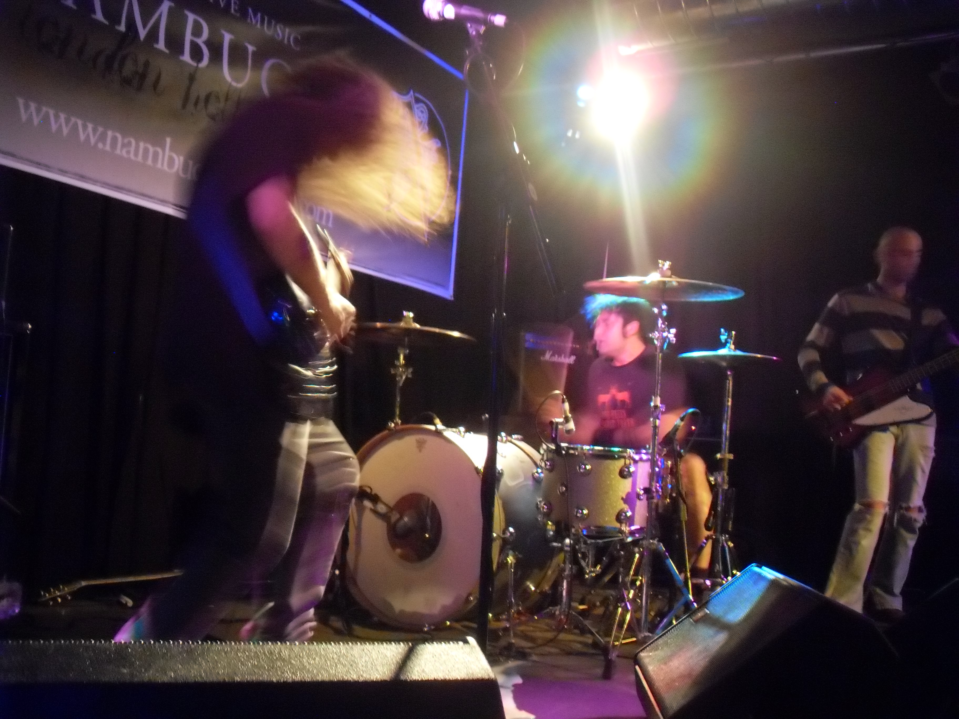 Fallingice - Live @ Nambucca, London 12-05-2011